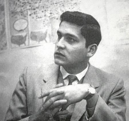 Javier Heraud, guerrilla poet